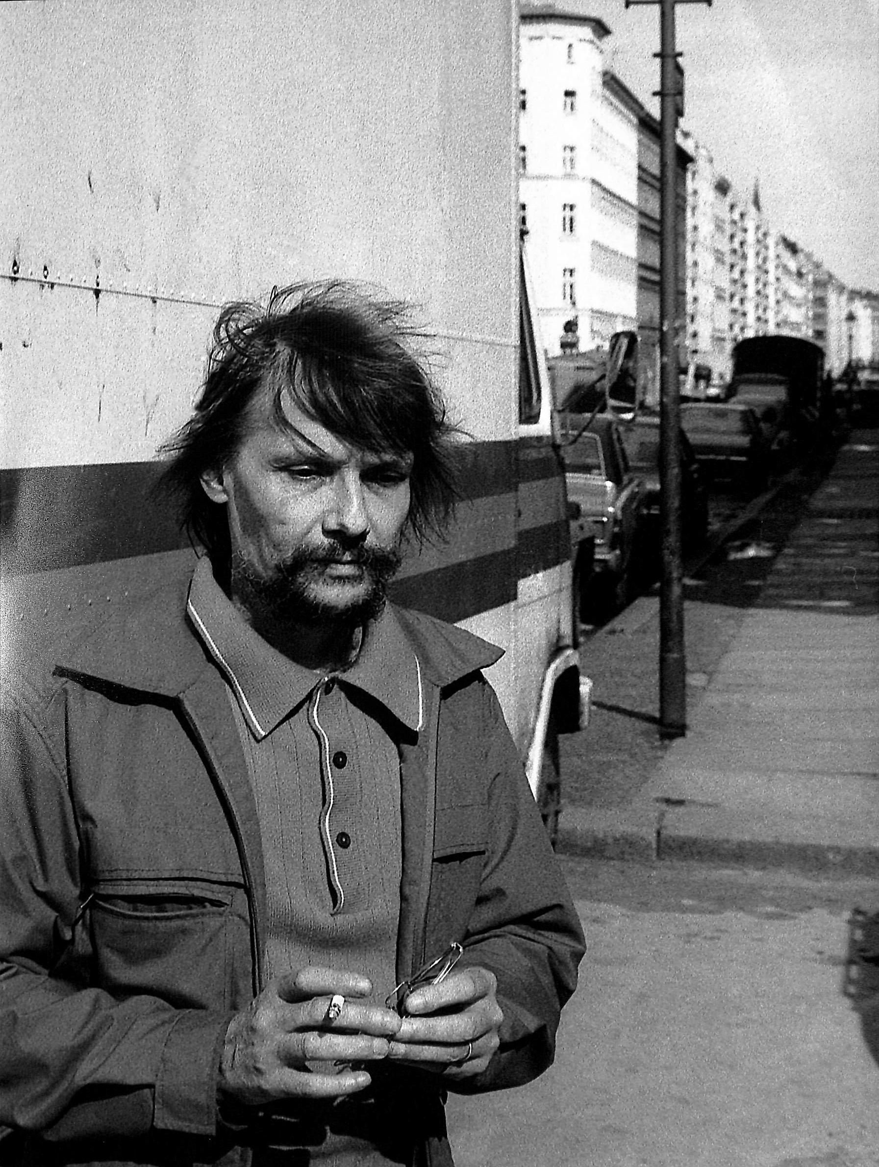 Artur Märchen, painter and poet from Berlin.